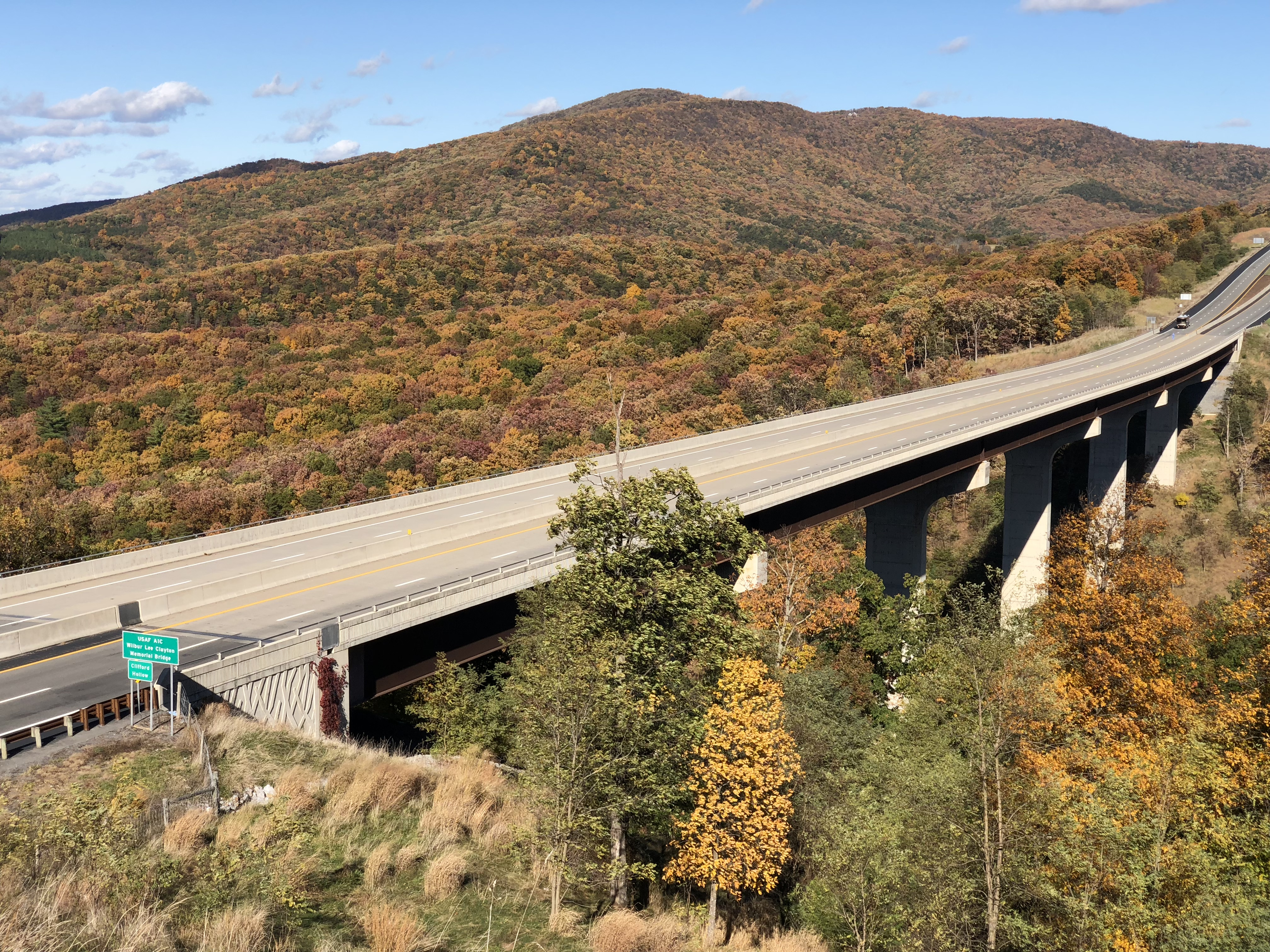 View northeast across U.S. Route 48 and West Virginia State Route 55 (Corridor H) as it crosses Clifford Hollow in Hardy County, West Virginia